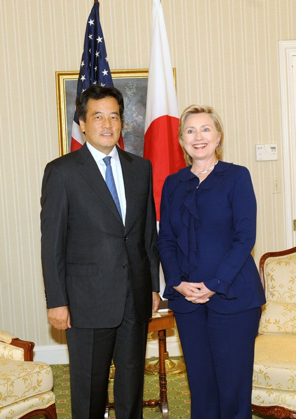 Katsuya Okada, Minister for Foreign Affairs, met Hillary Rodham Clinton, Secretary of State, at the Waldorf-Astoria Hotel in New York City, New York State on September 21, 2009.